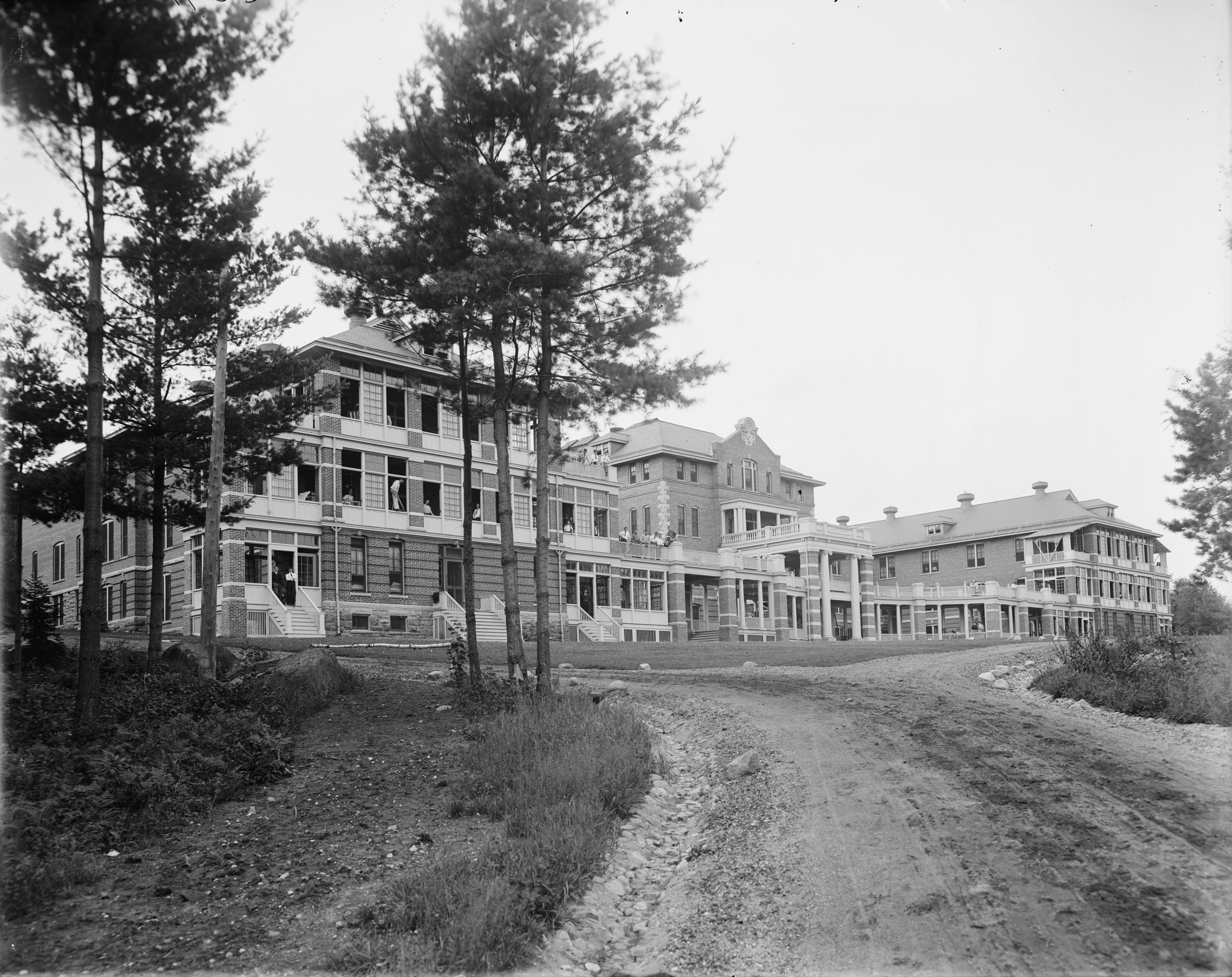 Saranac Lake, state sanitorium, Ray Brook, Adirondacks, N.Y.